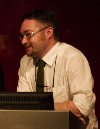 Update: Woot! Upcoming in November 2010: Journey through the afterlife: the ancient Egyptian Book of the Dead exhibition at the British Museum Sean wrote up a nice summary of what we've learned fromThe British Museum on Pigments and Fading in the Book of the Dead on Heritage Key.